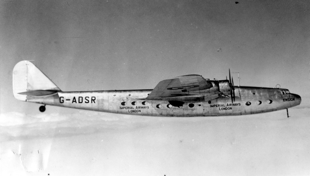 PictionID:40971649 - Title:Ensign Armstrong Whitworth AW.27 Ensign I G-ADSR - Catalog:15_002679 - Filename:15_002679.tif - Image from the Charles Daniels Photo Collection album "British Aircraft."PLEASE TAG this image with any information you know about it, so that we can permanently store this data with the original image file in our Digital Asset Management System.SOURCE INSTITUTION: San Diego Air and Space Museum Archive